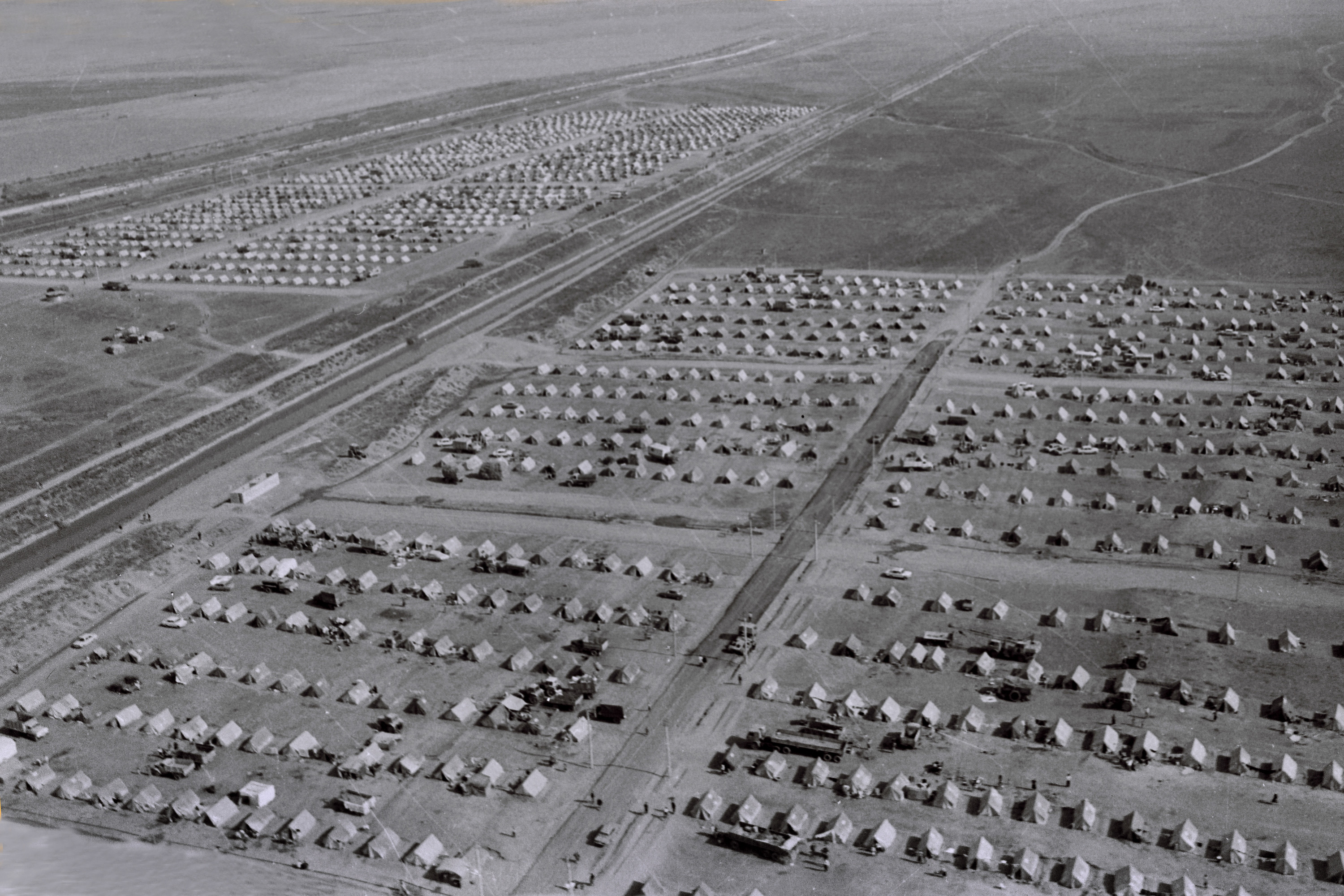 Azerbaijani refugee camp in Beylagan Rayon